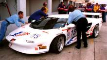 Vector M12 GT Team American Spirit of Racing